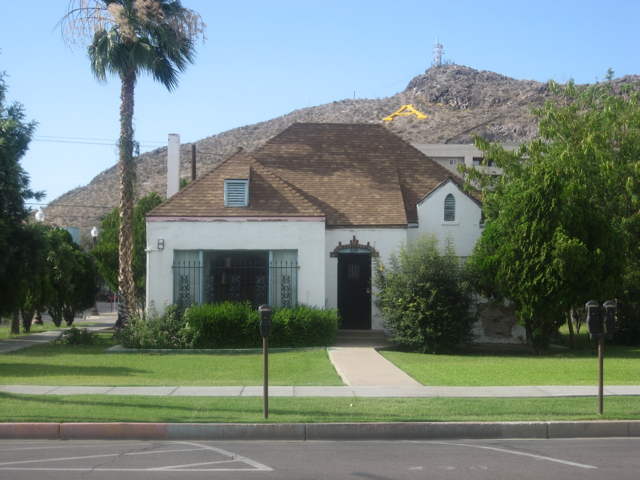 Dating from 1895, the Harrington-Birchett House is an excellent example of Victorian and English Tudor Revival architecture. It was occupied by an early mayor of Tempe. It was added to the National Register of Historic Places in 1984.